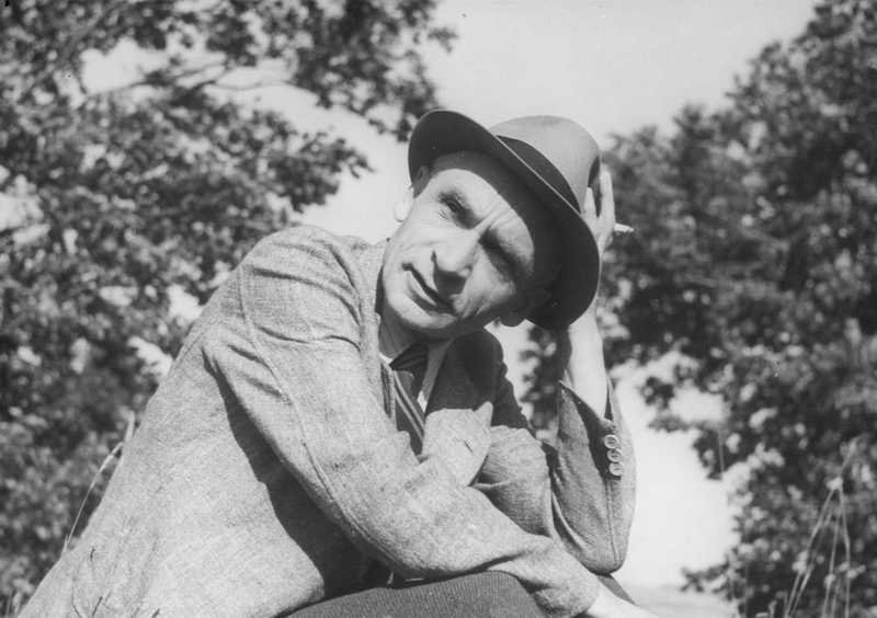 Czech writer Jan Weiss, cca 1942.